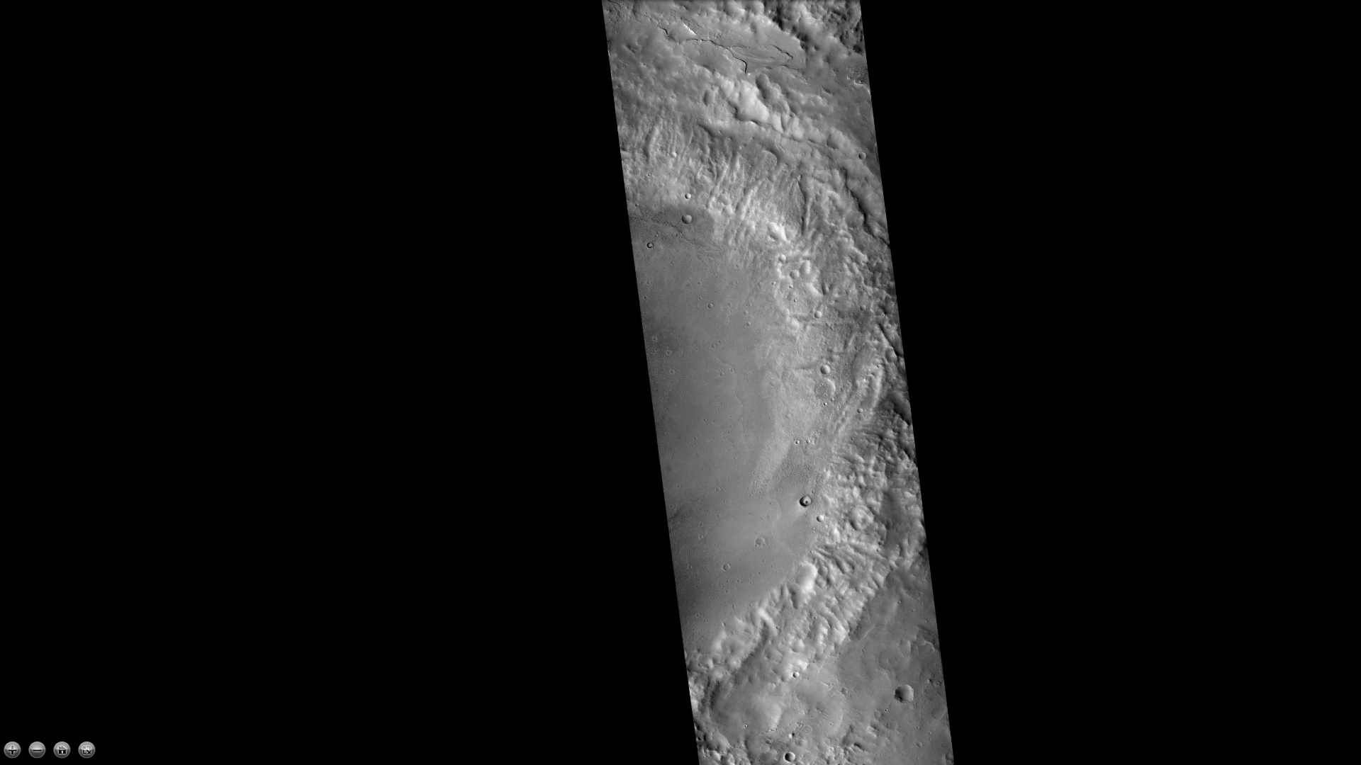 Gill Crater, east side, as seen by ctx